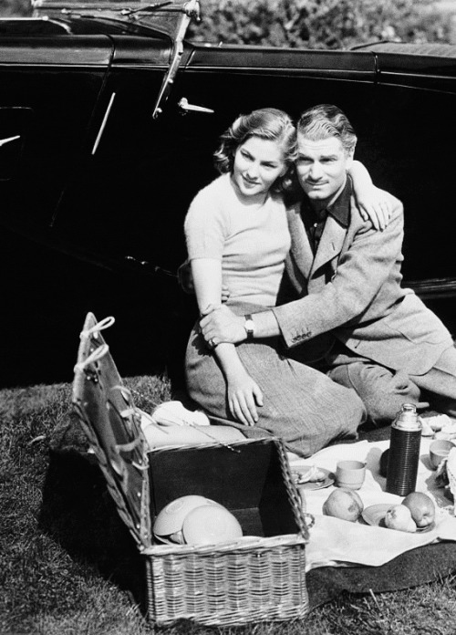 Promotional photograph of Joan Fontaine and Laurence Olivier in the film Rebecca